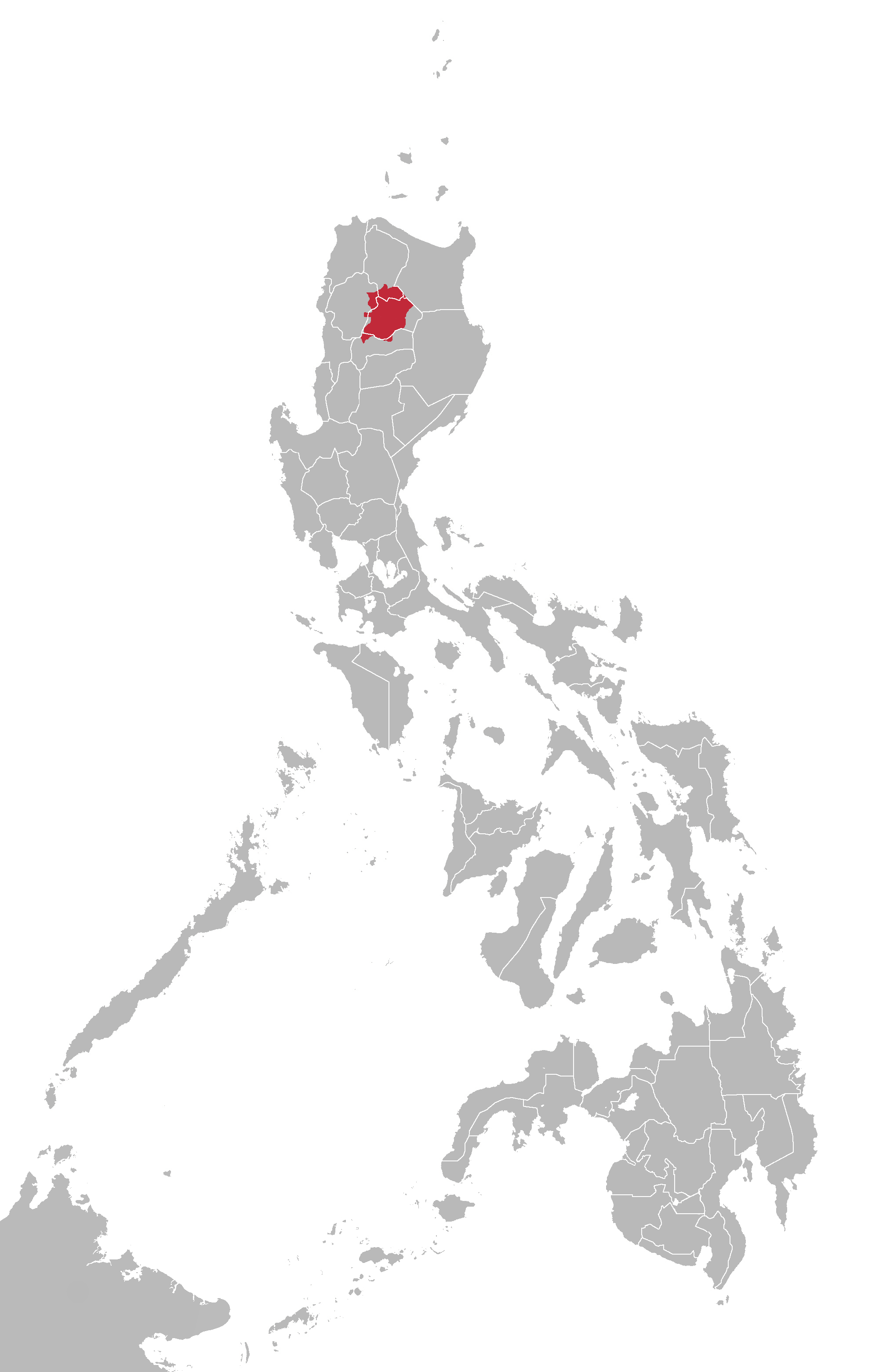 Kalinga language map based on Ethnologue maps